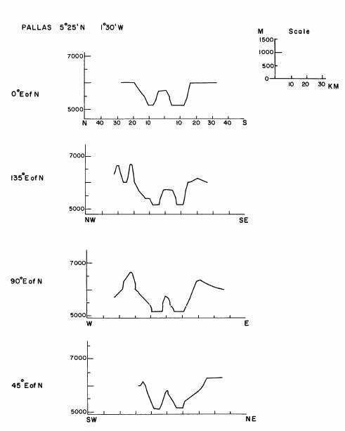 Pallas crater cross section